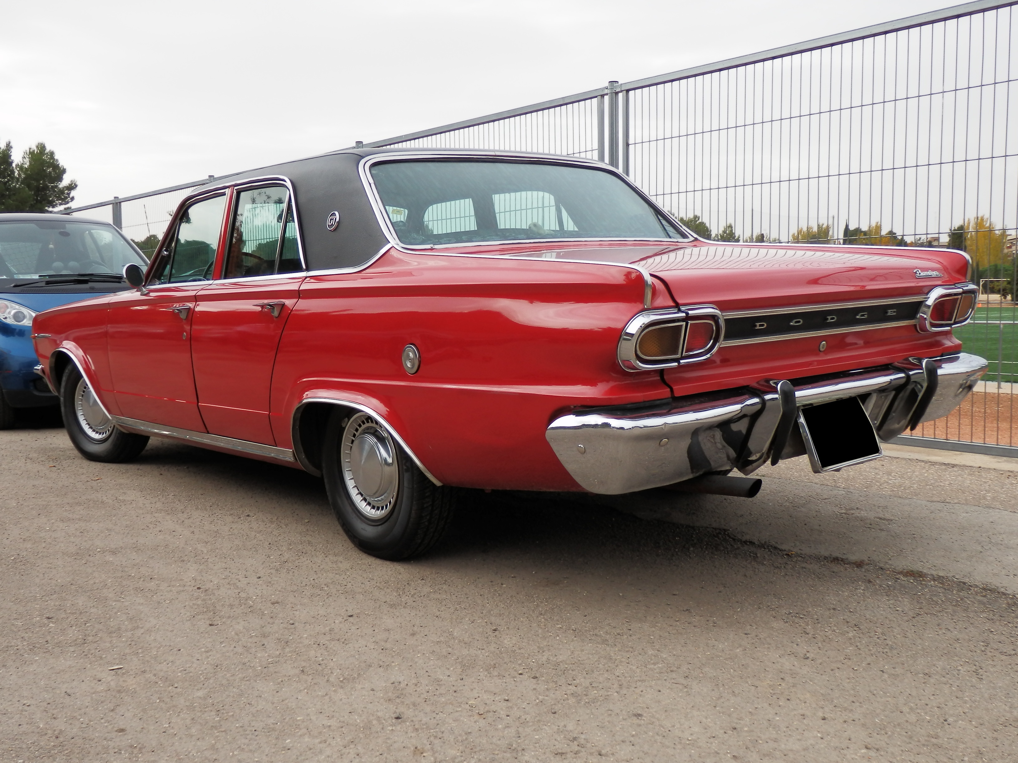 1969 Dodge Dart GT built by Barreiros Diésel S.A in Spain. Gasoline motor. 6 cylinder. 163 HP.